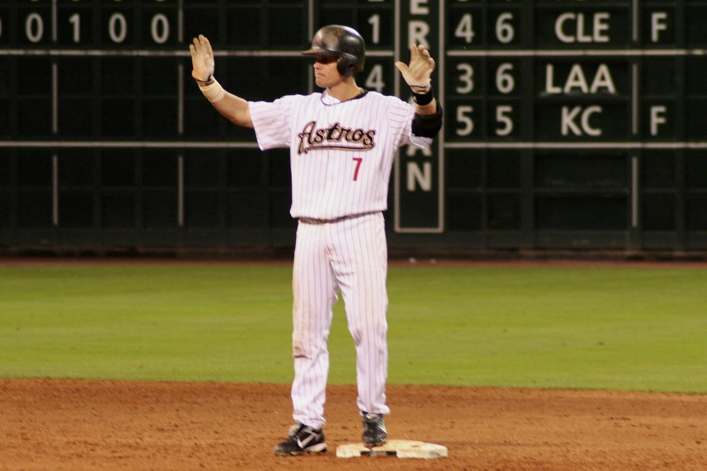 Acknowledging the appreciation of the fans after a double against the Reds